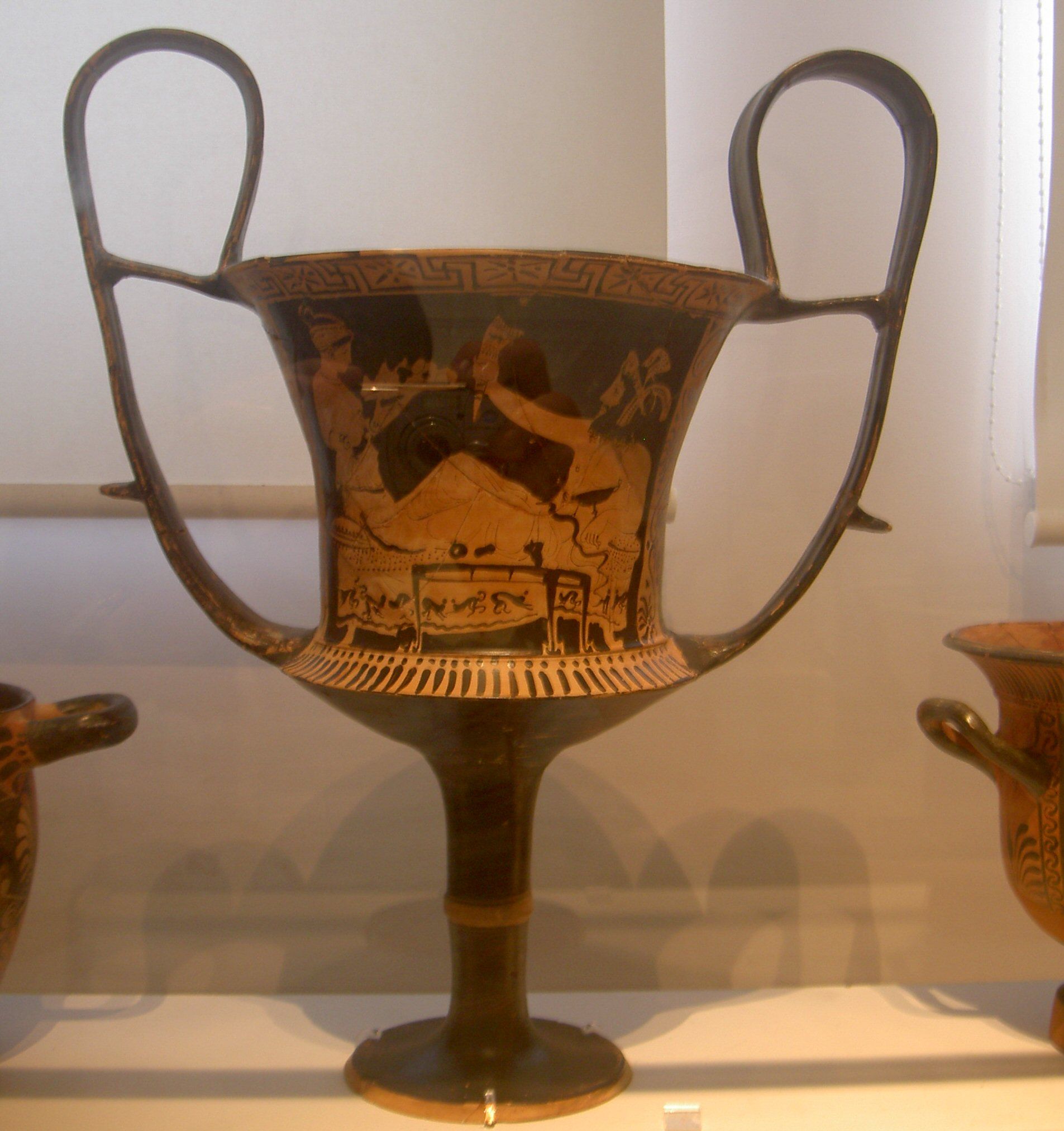 Red-figure kantharos, National Archaeological Museum of Athens